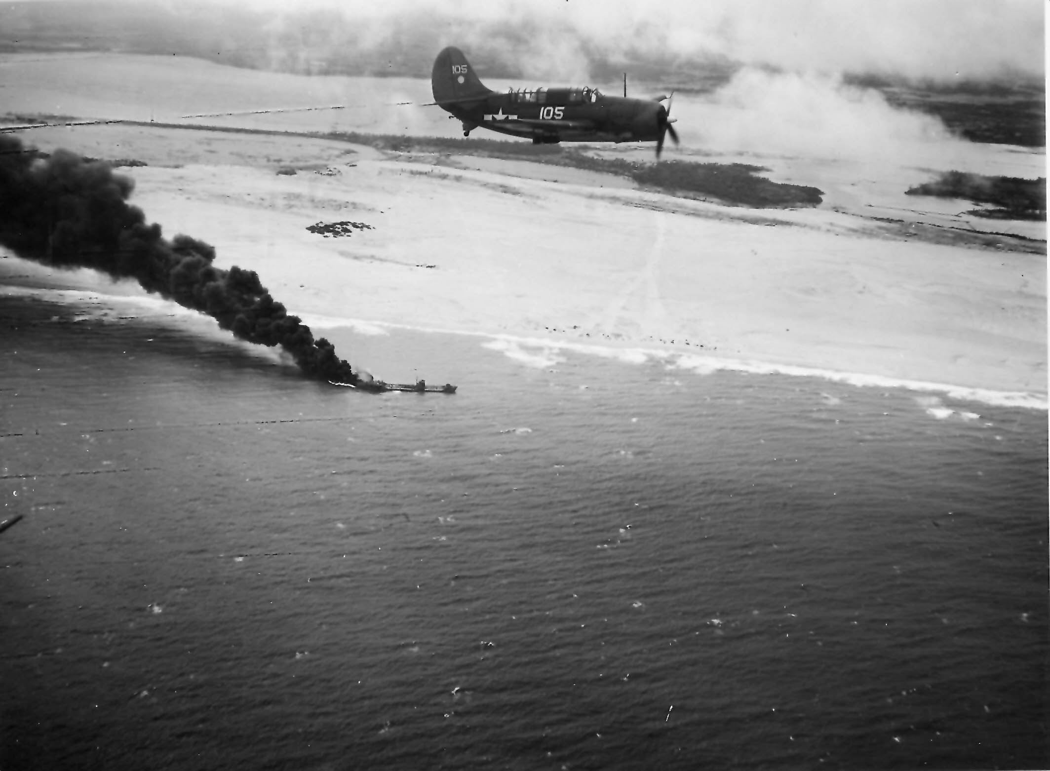 SB2C-3 of Bombing Squadron Eleven (VB-11) flies over a Japanese oiler smoking furiously a few moments after being hit by carrier-based aircraft in the vicinity of French Indochina. VB-11 operated from USS Hornet (CV-12) during the period October 1944-January 1945, participating in the Battle of Leyte Gulf and flying numerus strikes over the Philippines, Formosa, and Hong Kong. Note the white dot tail symbol indicating the aircraft's assignment to Hornet.